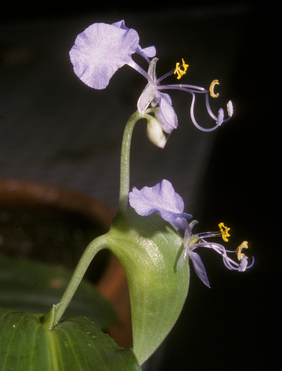 Commelina lukei Faden in cultivation at the Smithsonian Institution greenhouses in Suitland, Maryland, USA. The plant, which was collected in Kenya, served as the type collection (Luke et al. 7080).